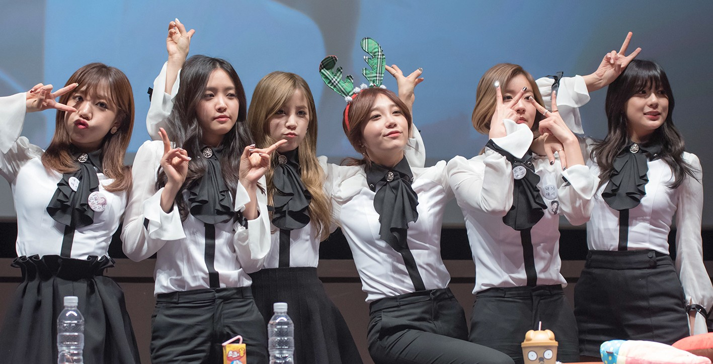 A Pink at a fansigning event in Gwangju, 10 December 2014. Left to right: Namjoo, Naeun, Chorong, Eunji, Bomi and Hayoung.